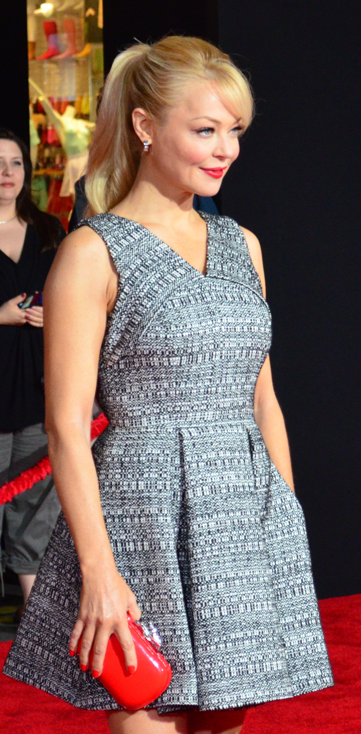 Charlotte Ross by Mingle Media TV and Red Carpet Report host Brogyn Gage were invited to cover the the premiere of of DreamWorks Pictures’ “Need for Speed” directed by Scott Waugh and starring Aaron Paul, Dominic Cooper, Imogen Poots, Scott Mescudi and Michael Keaton at the TCL Chinese Theatres in Hollywood.